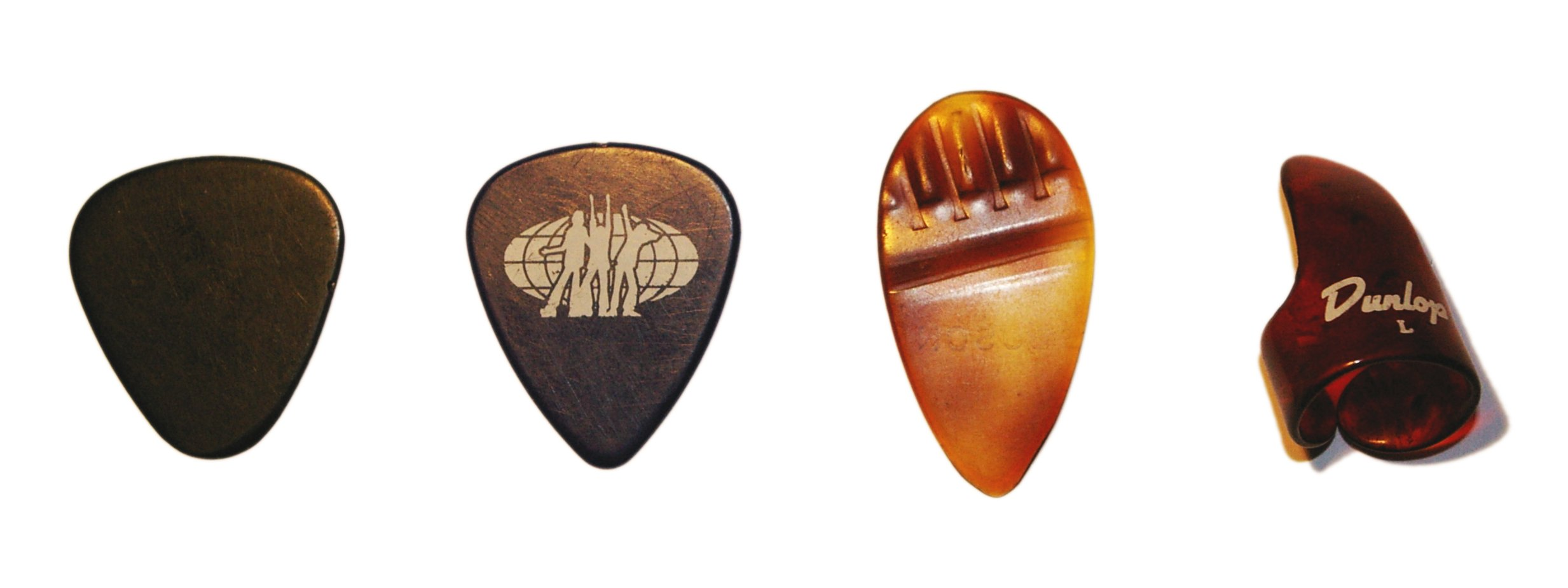 guitar picks